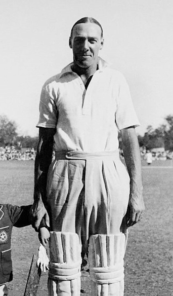 England cricketer Stan Nichols of Essex poses for a snapshot with the son of a local policeman before the match against Central Provinces and Berar at Nagpur during the MCC tour to India and Ceylon